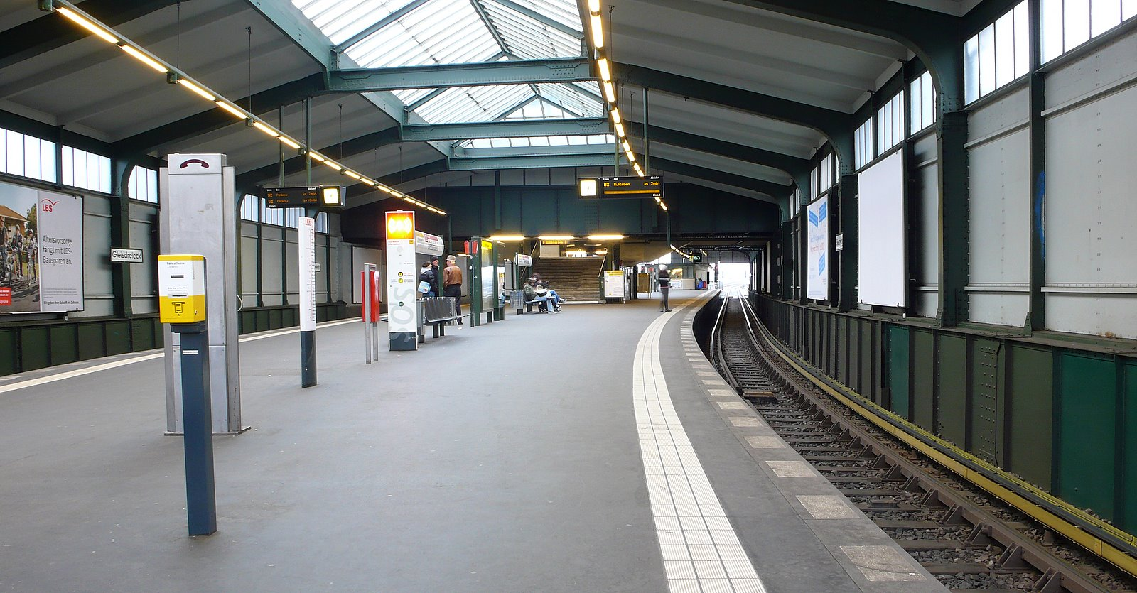 Gleisdreieck subway station Berlin U2